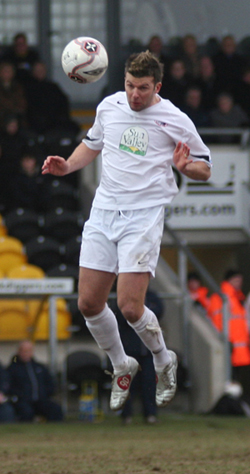 Tony James, long serving centre back for Hereford United - departed after promotion from Nationwide Conference League in 2006